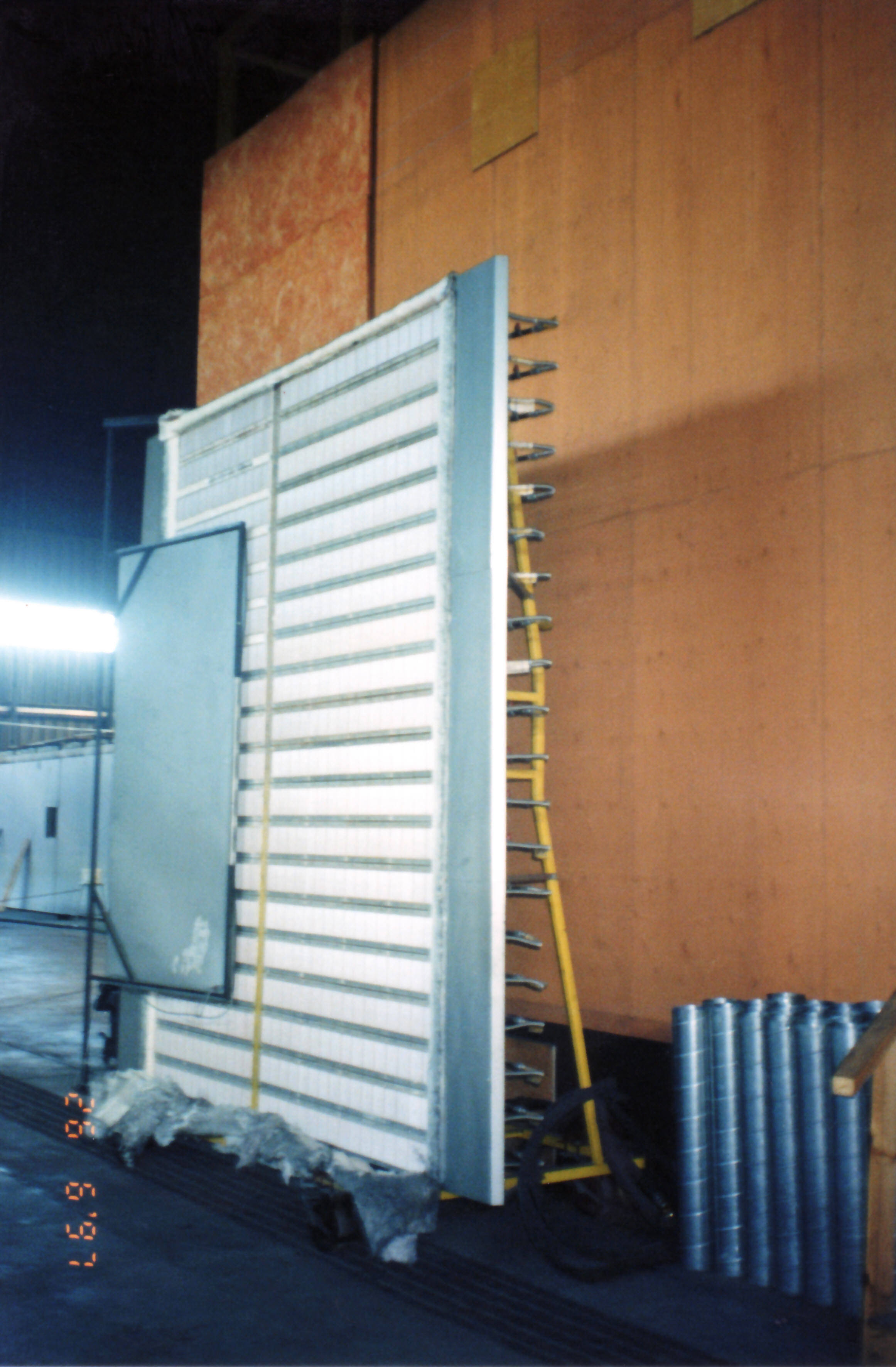 Radian heat panel at National Research Council (NRC) near Ottawa, Ontario, Canada.